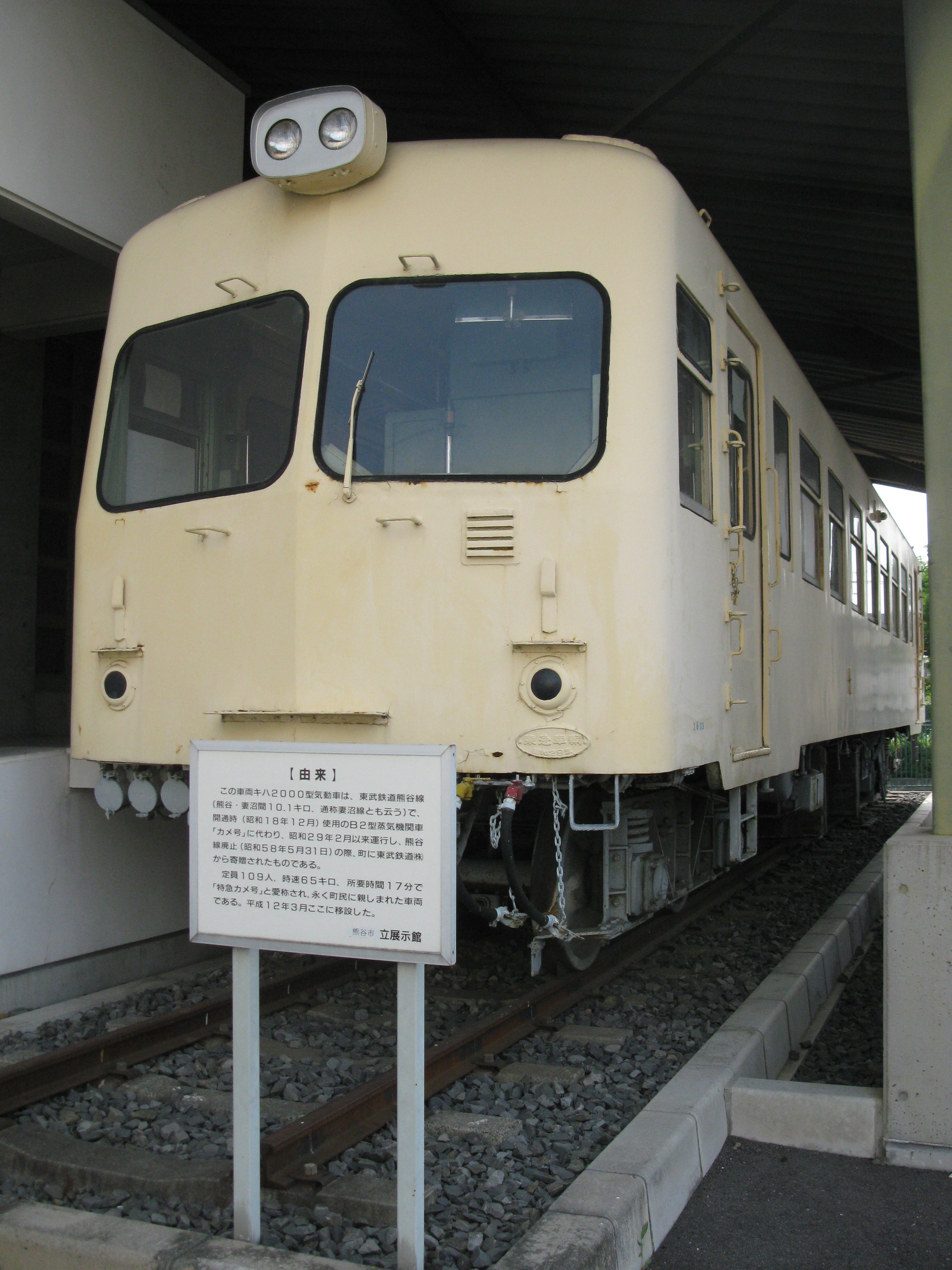 A Tobu Railway KiHa 2000 series diesel railcar formerly used on the Tobu Kumagaya Line (preserved in Kumagaya, Saitama Prefecture, Japan